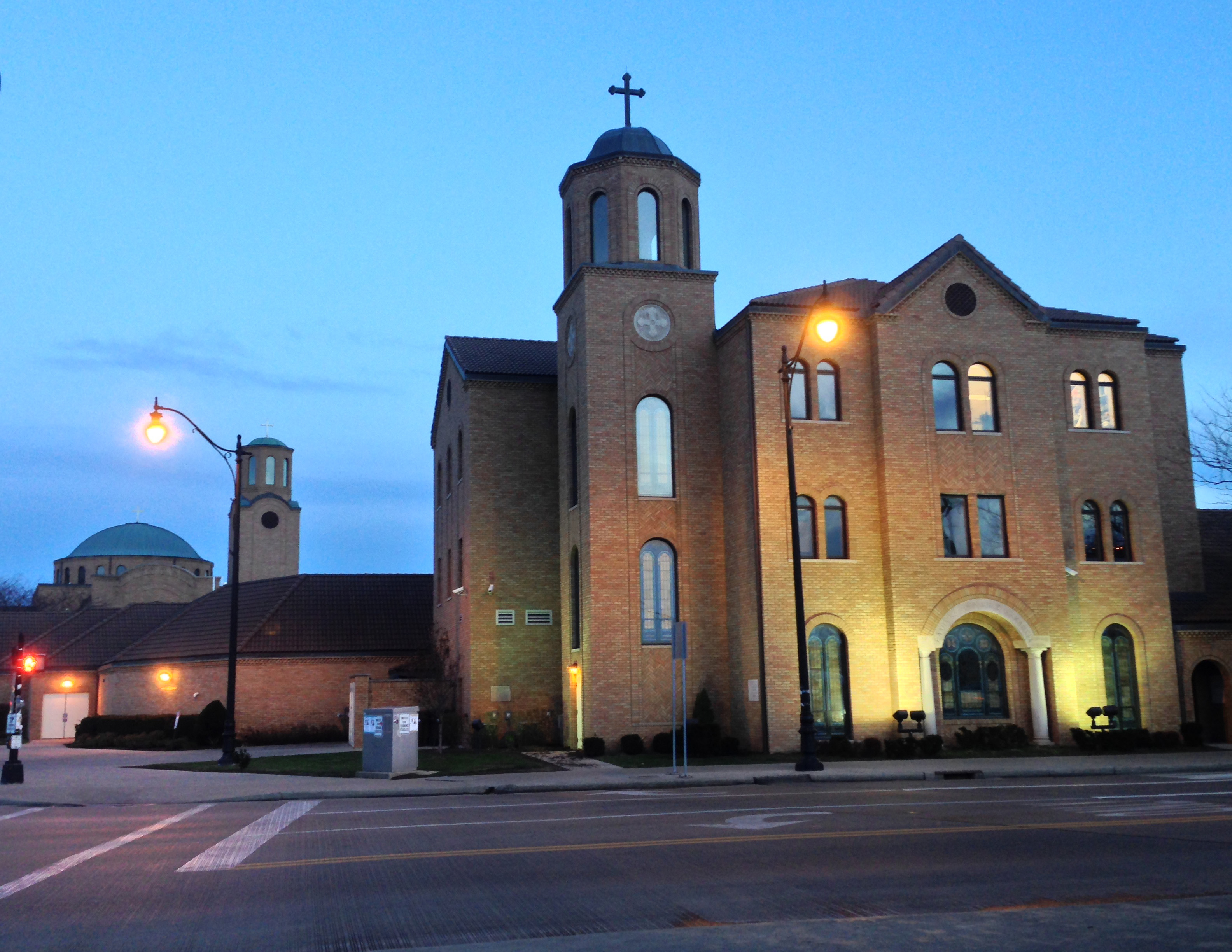 The Annunciation Greek Orthodox Cathedral